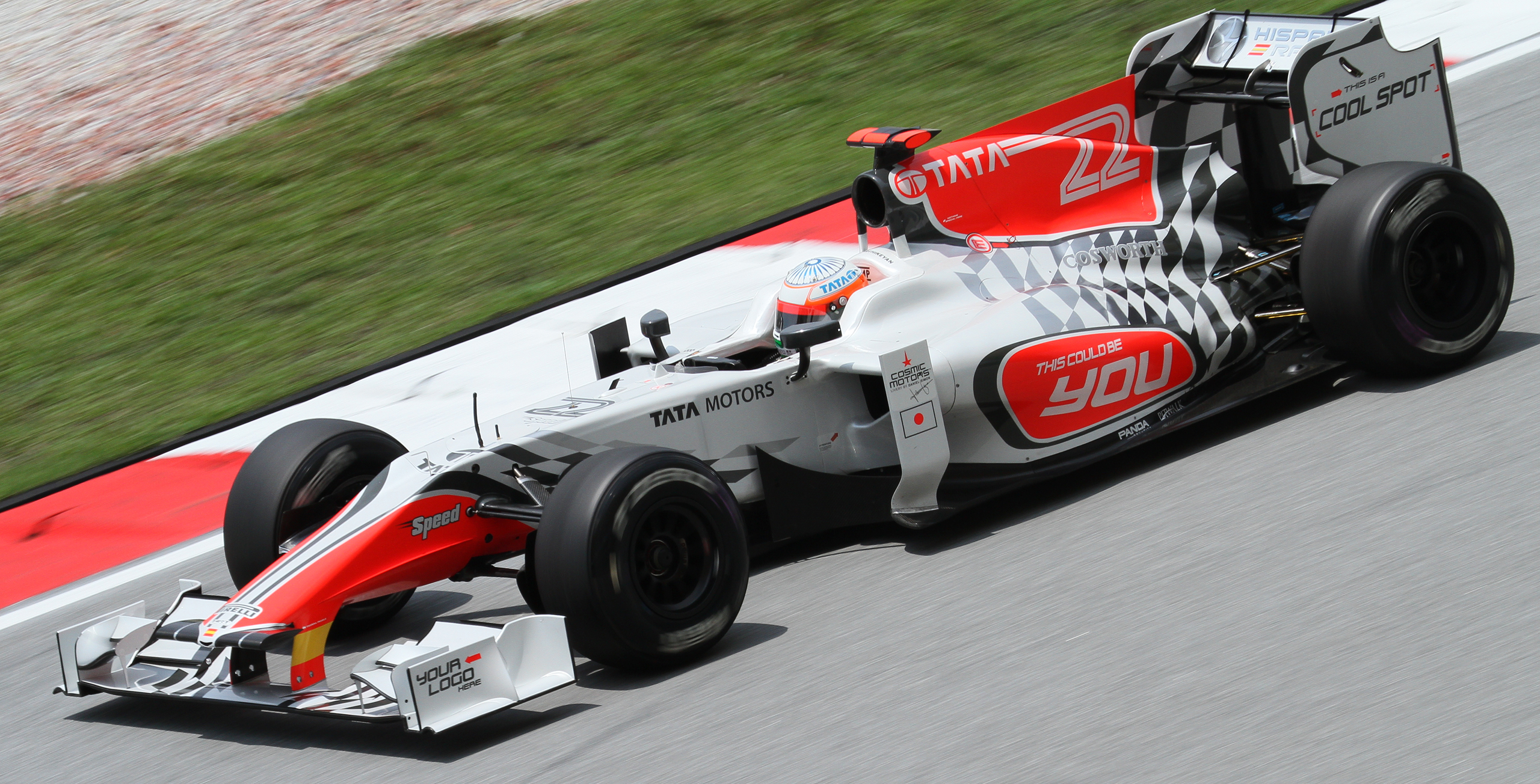 Formula One 2011 Rd.2 Malaysian GP: Narain Karthikeyan (HRT) during the second practice session on Friday.